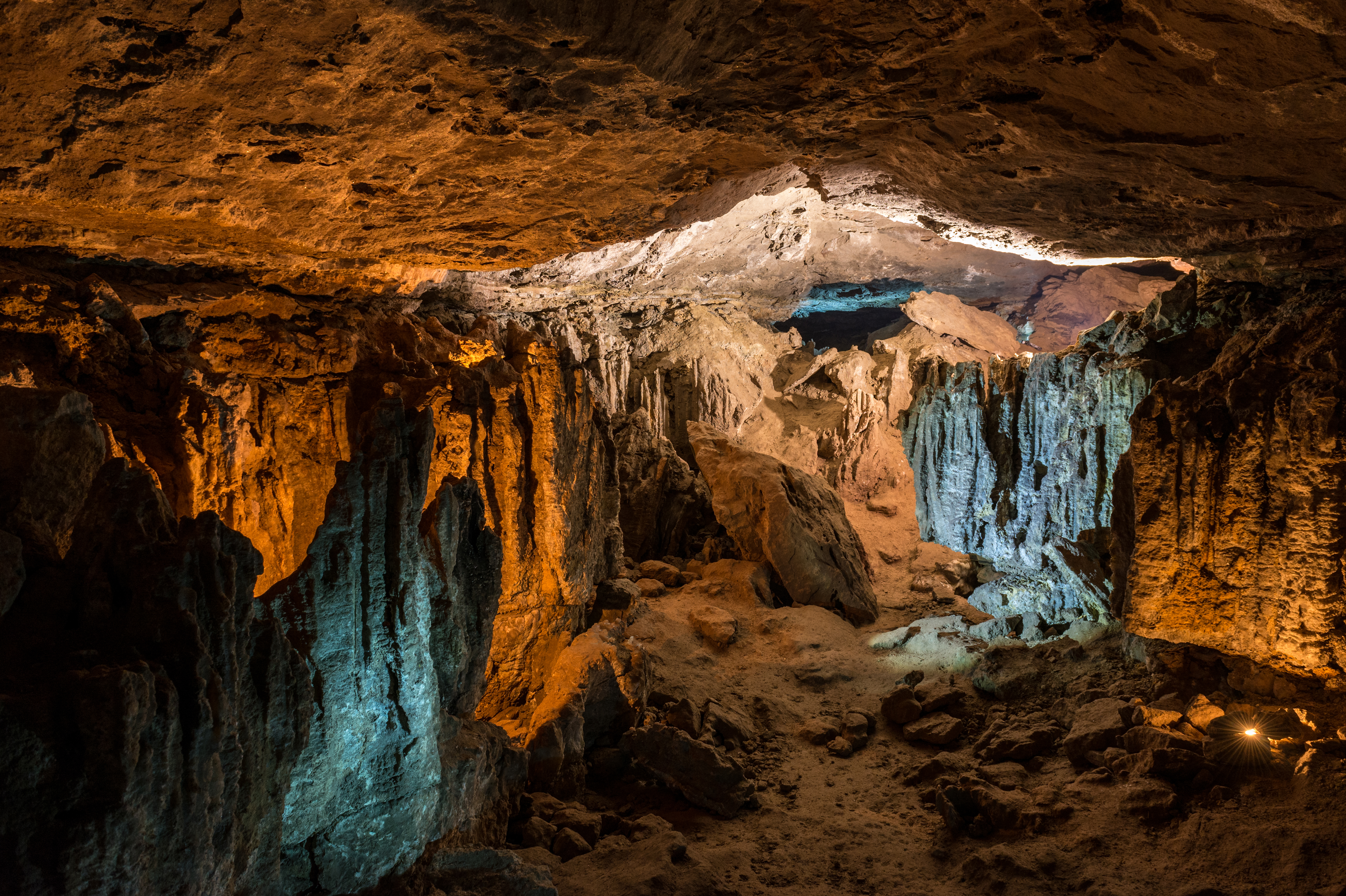 Yuryevskaya cave in the Kamsko-Ustyinsky district of Tatarstan, Russia